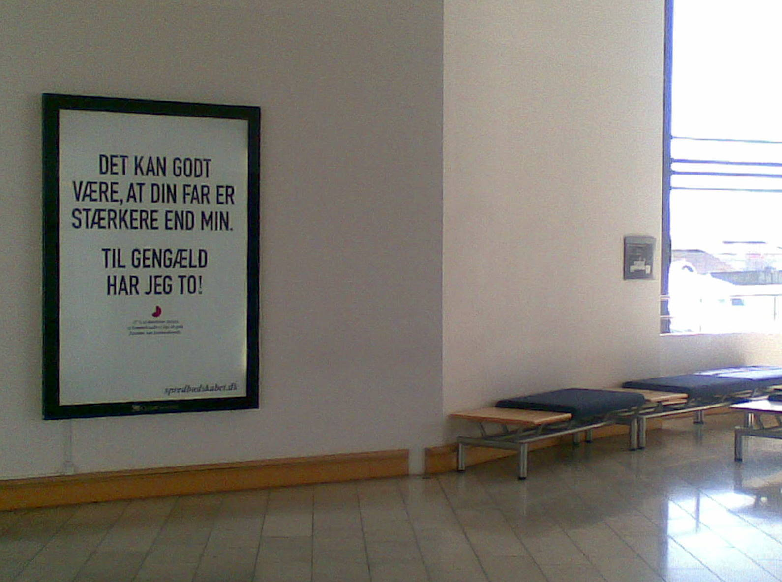 A poster at the Copenhagen airport: Your father might be stronger than mine, but then again I have two of them!